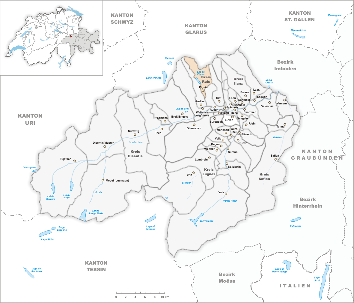 Municipality Pigniu